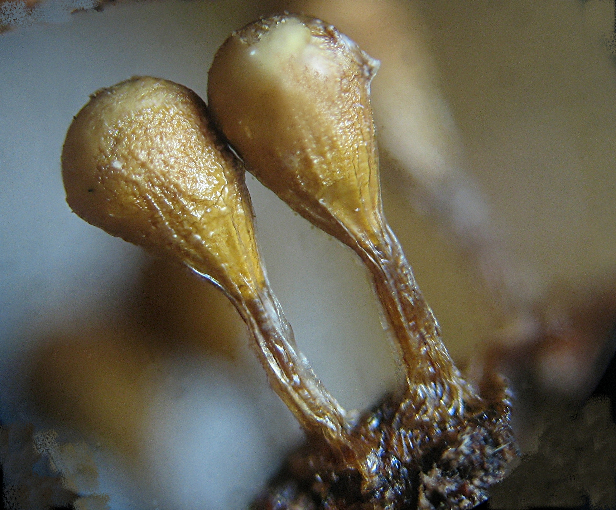 Myxomycète